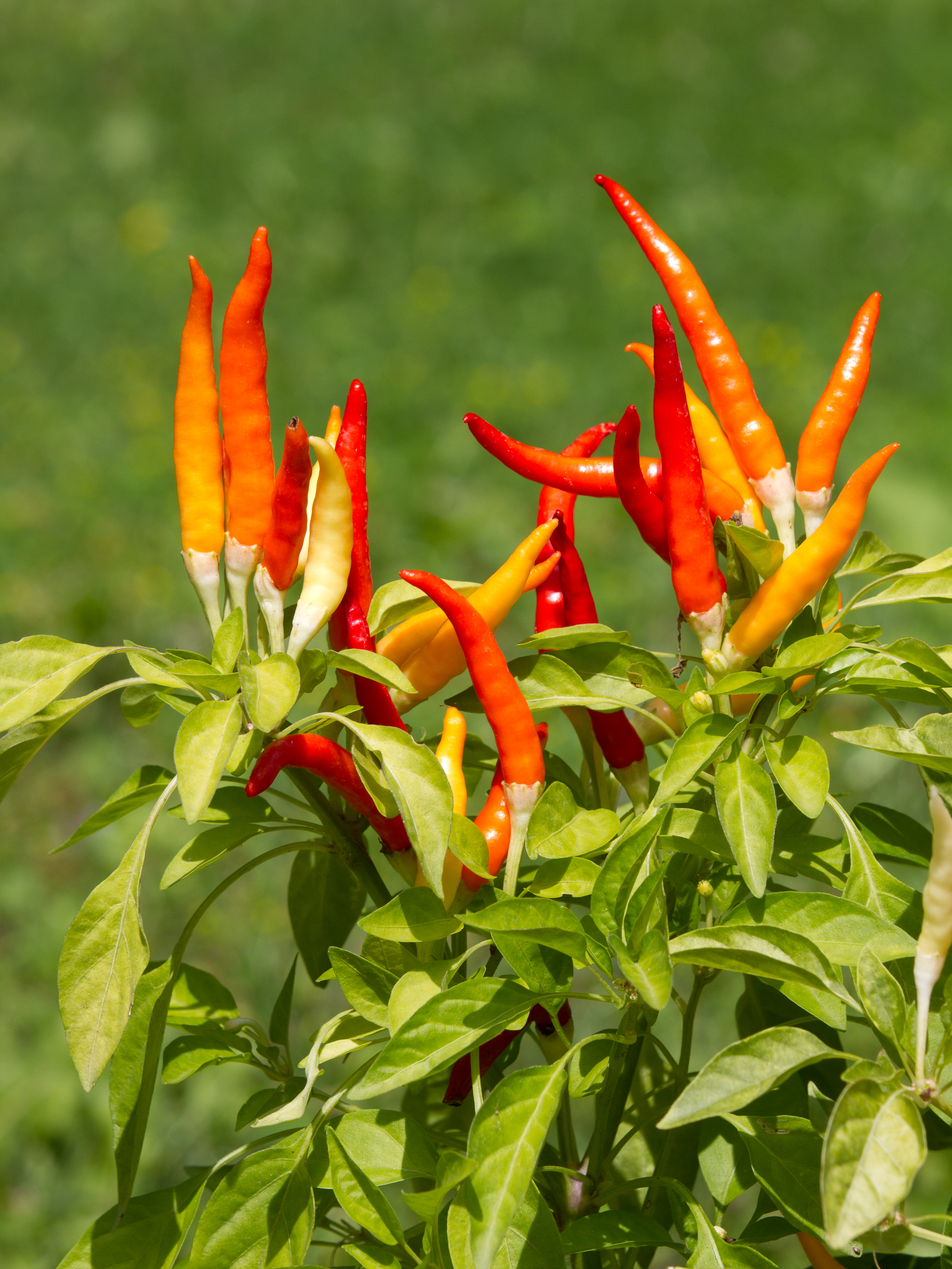 The 'Fiesta' cultivar is a decorative chili pepper.